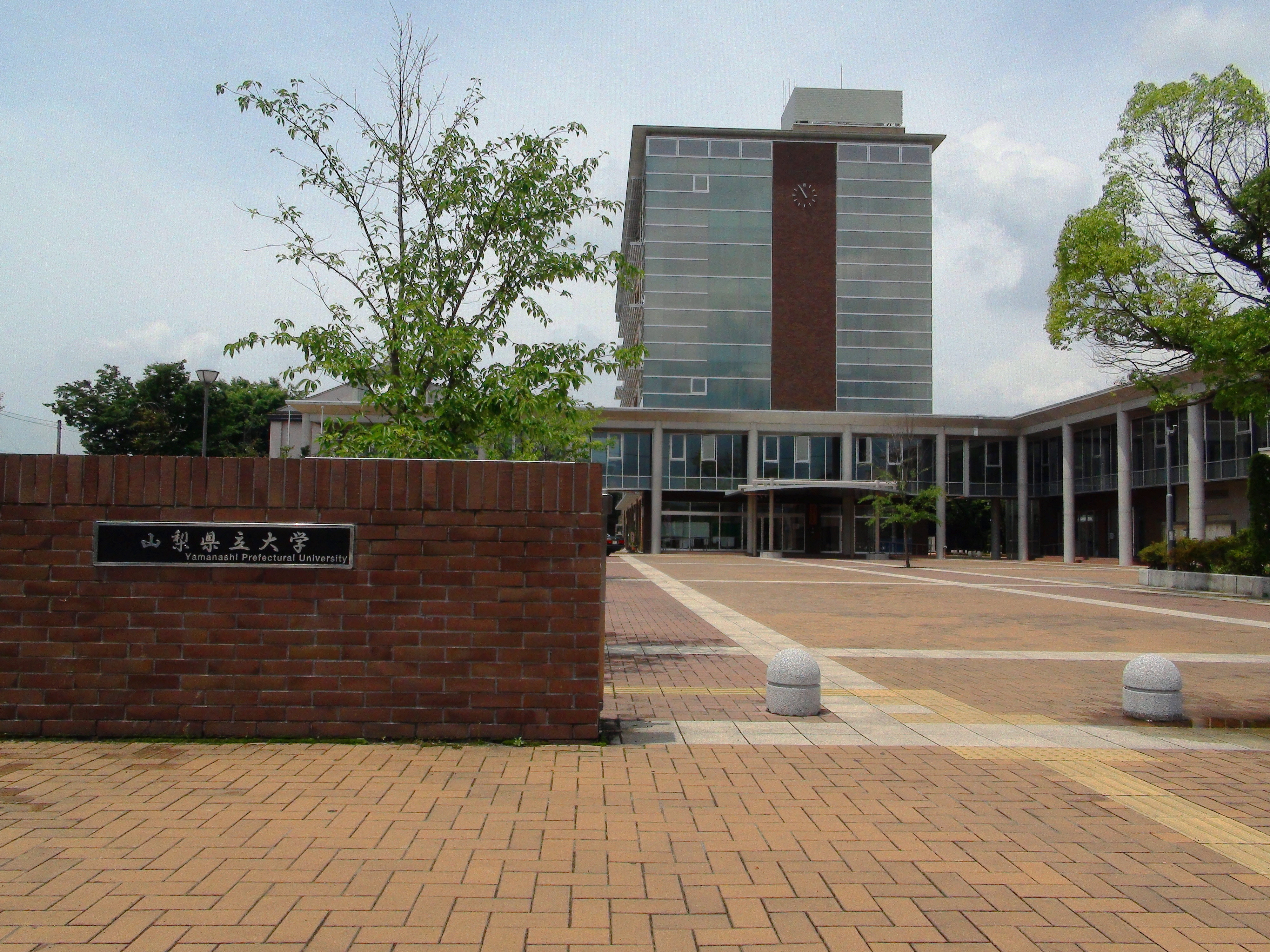 Yamanashi Prefectural University Iida campus